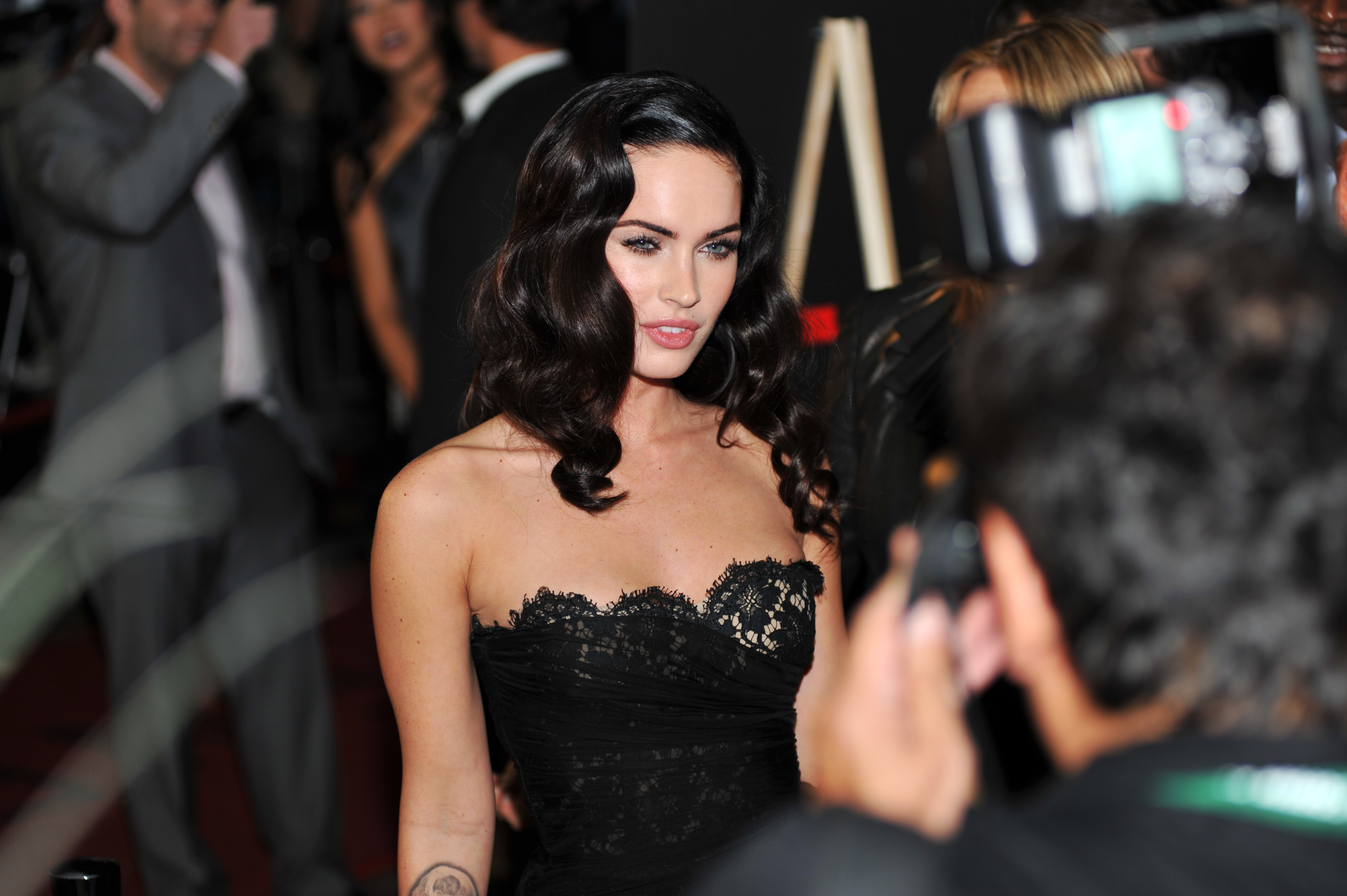 Megan Fox @ Jennifer's Body screening